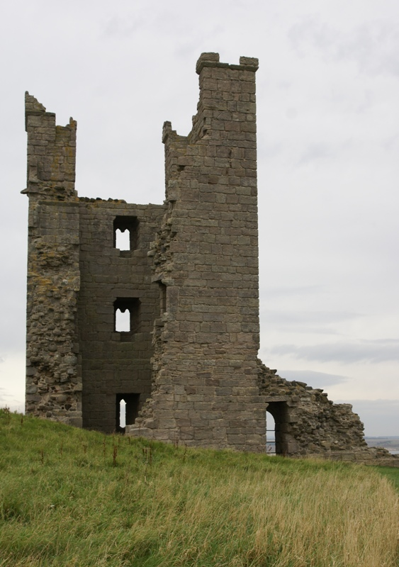 Dunstanburgh Castle, Northumberland, England. Lilburn Tower.